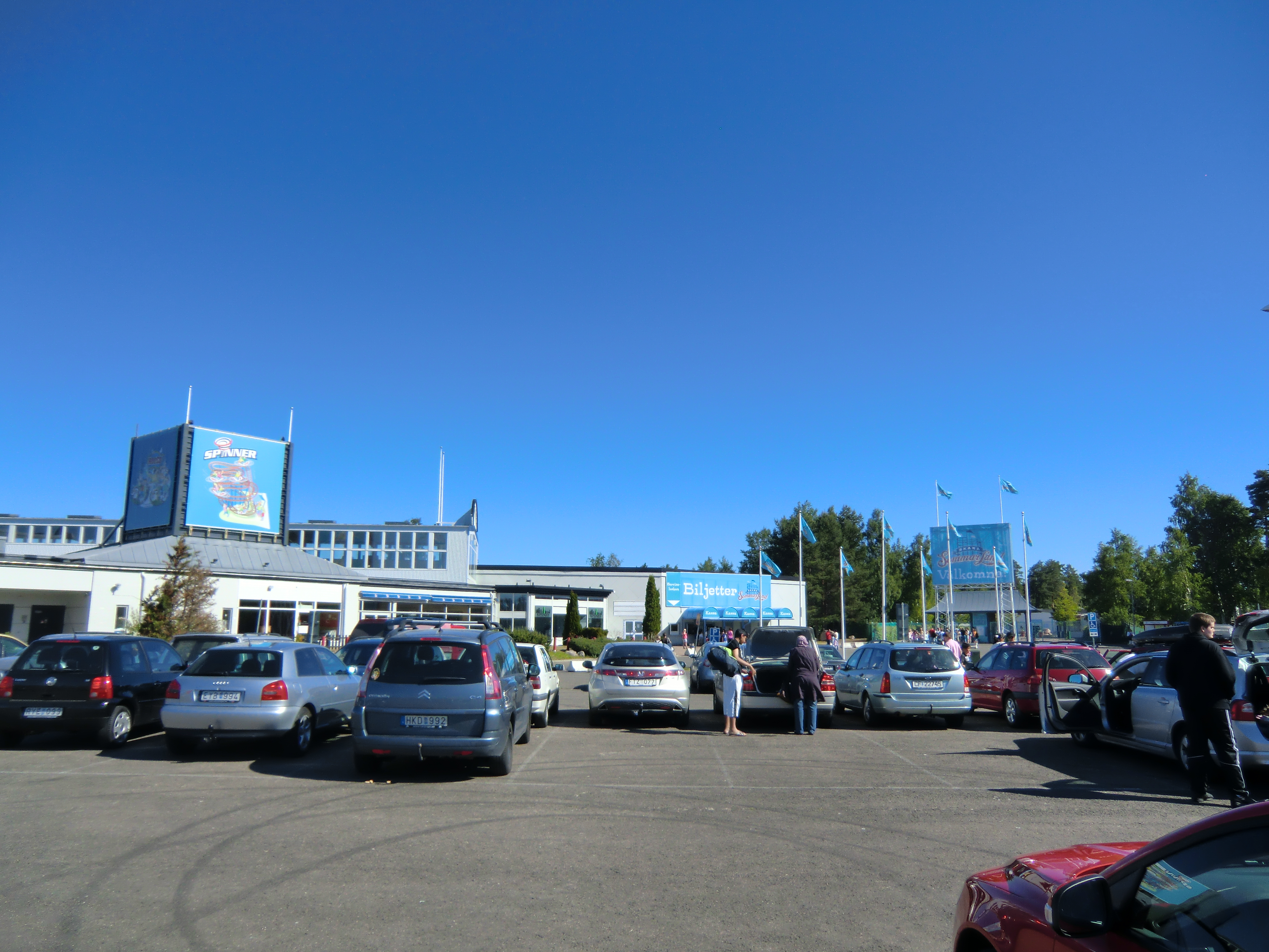 Main entrance at Skara Sommarland, Skara Municipality, Västergötland, Sweden.